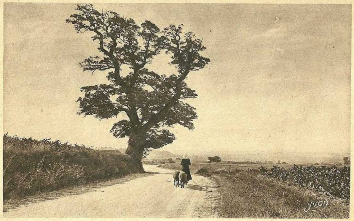 L'orme des Justices à Saint-Thomas-de-Conac (Charente-Maritime, France).